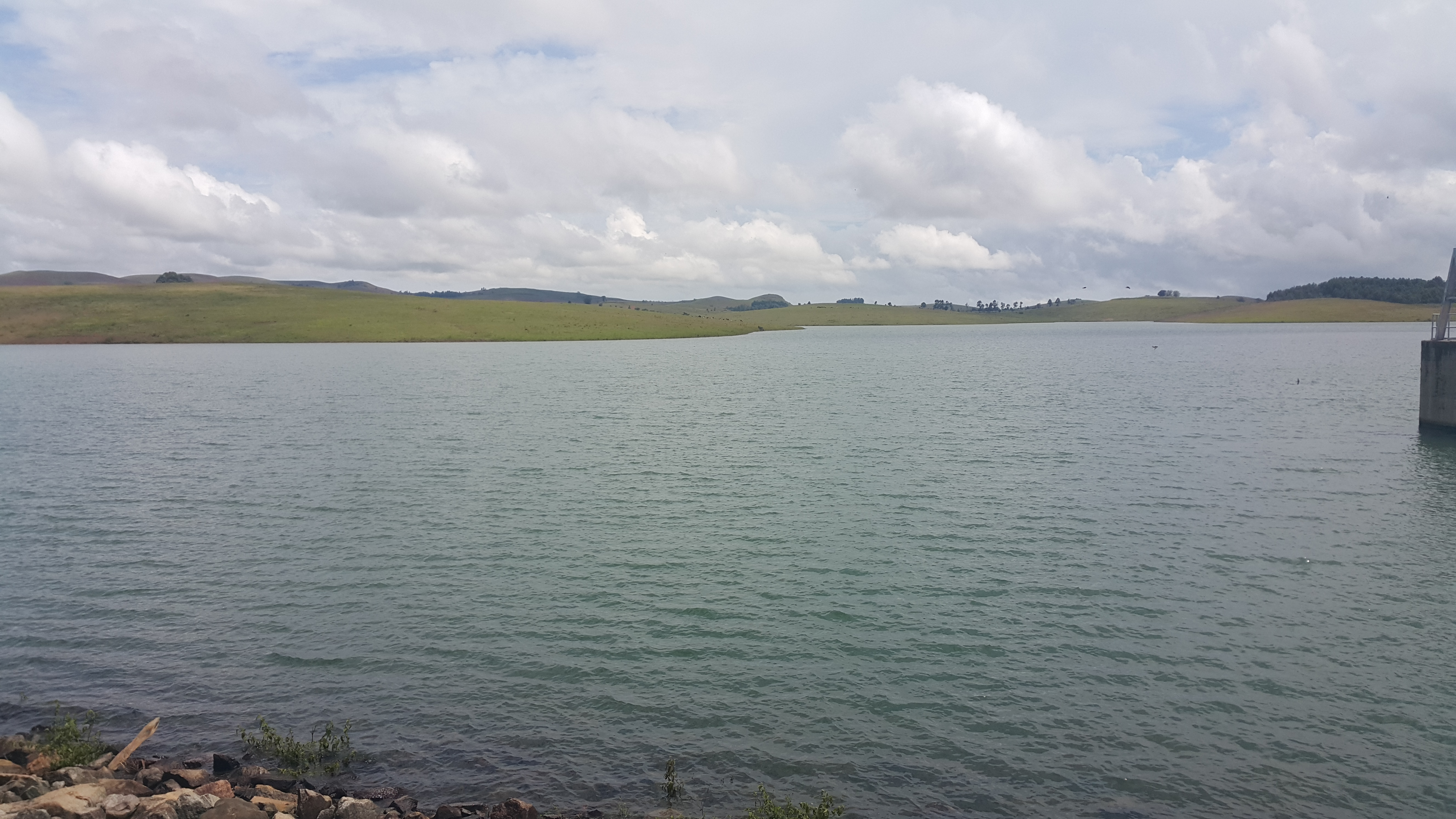 The natural lush green vegetation, Mambilla Power Plant/Dam water courses and highlands of the Mambilla plateau in Taraba state, Nigeria.